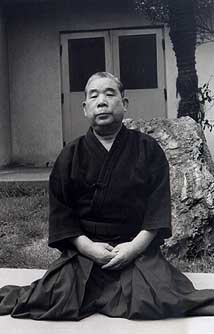 Shimizu Takaji - The unoffficial headmaster of the Japanese martial art Shinto Muso-ryu